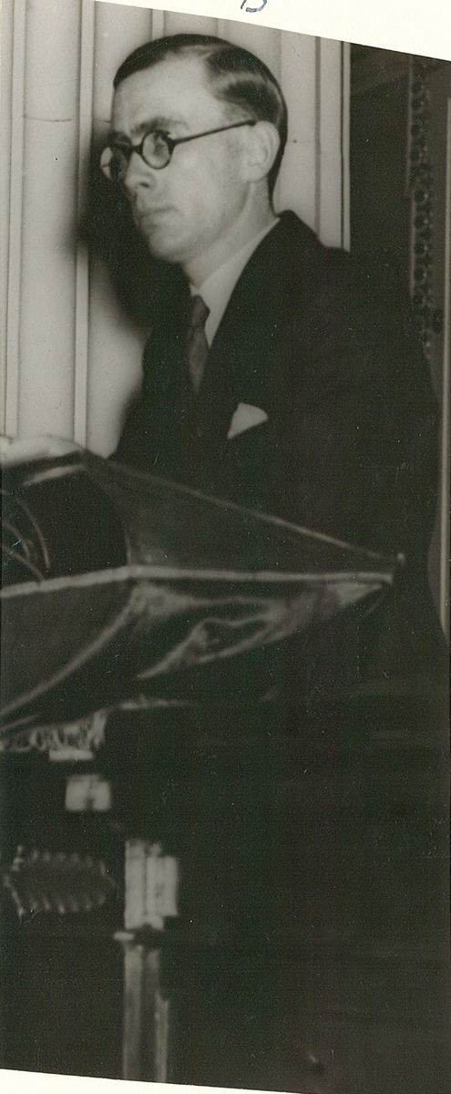 Norwegian professor of history Johan Christian Schreiner (1903–1967) pictured around 1940